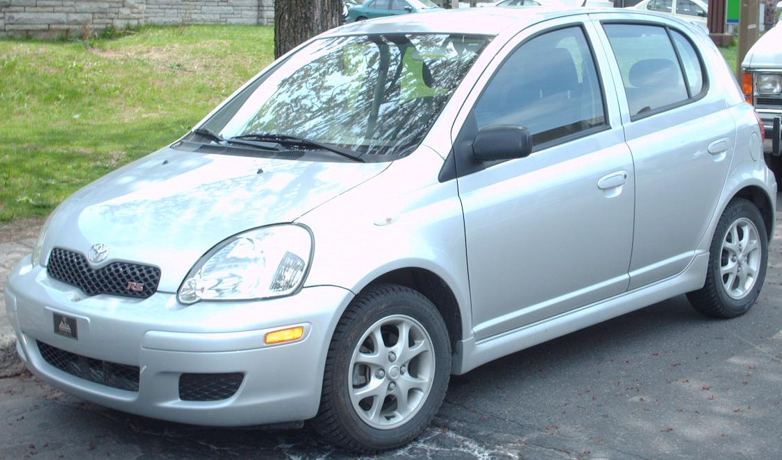 2003-2005 Toyota Echo RS photographed in Montreal, Quebec, Canada.